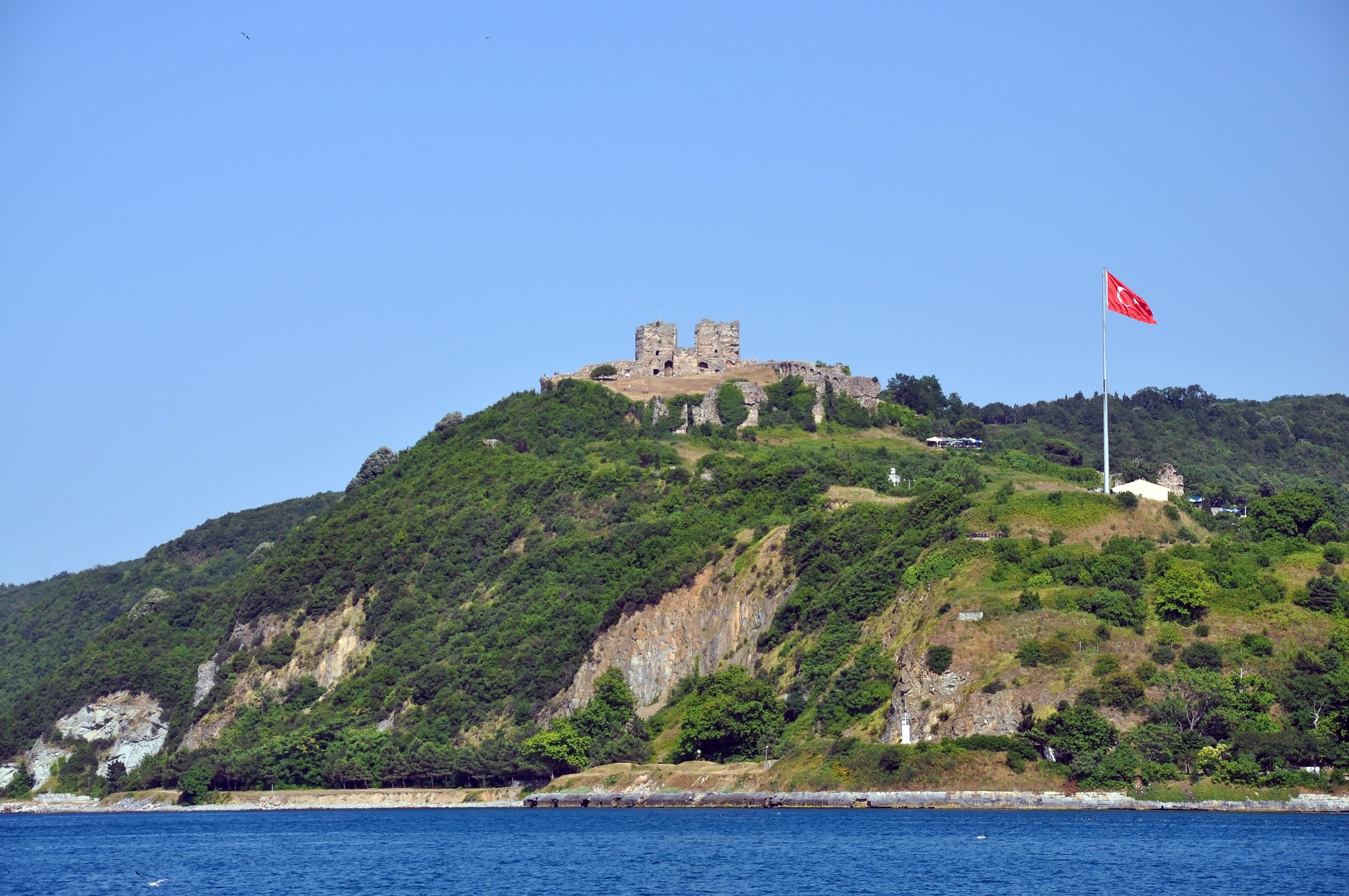 Yoros Castle at Anadolu Kavağı, the last harbour on the Asian coast of the Bosphorus before the Black Sea at the Beykoz district of Istanbul in Turkey.